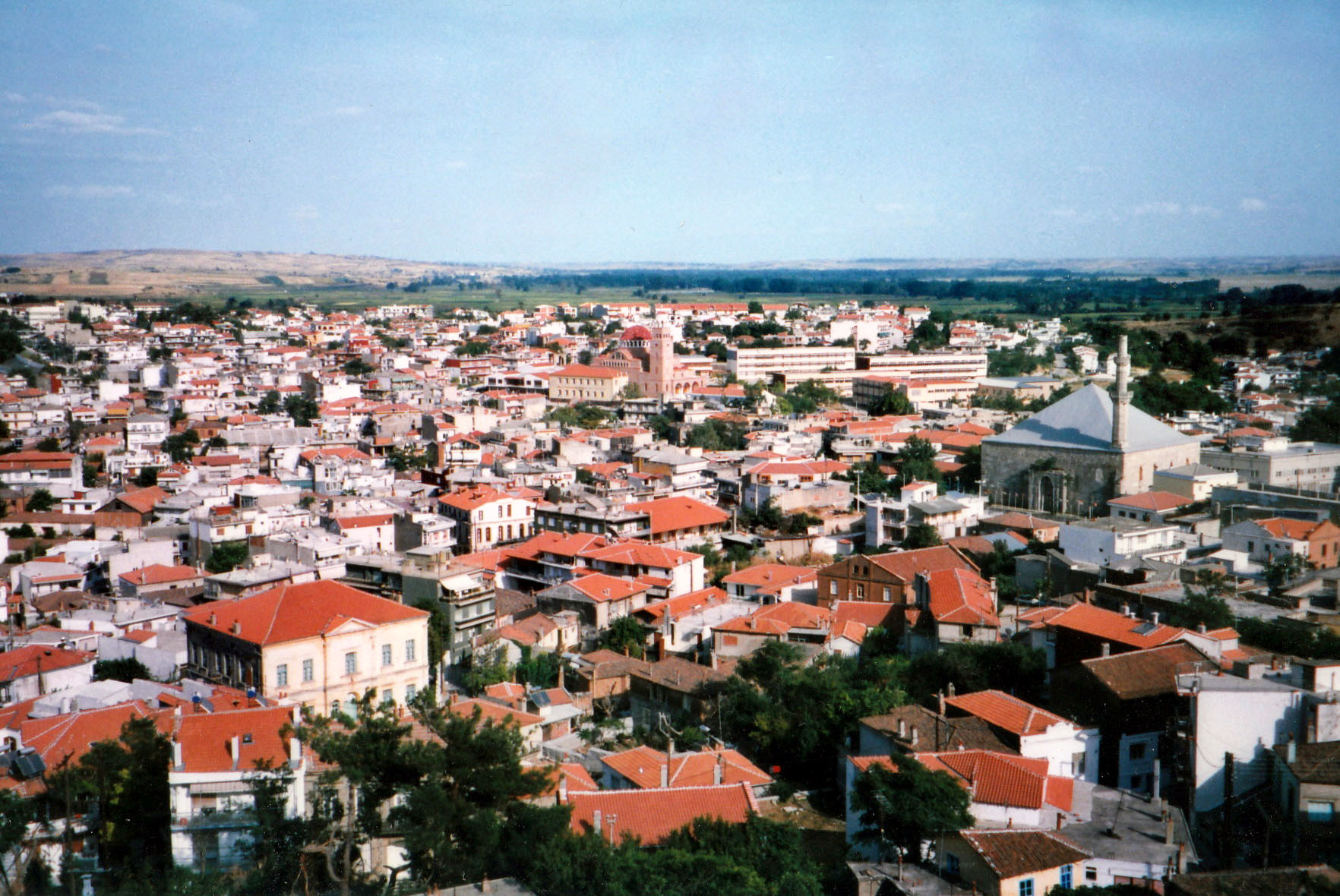 View of Didymoteicho